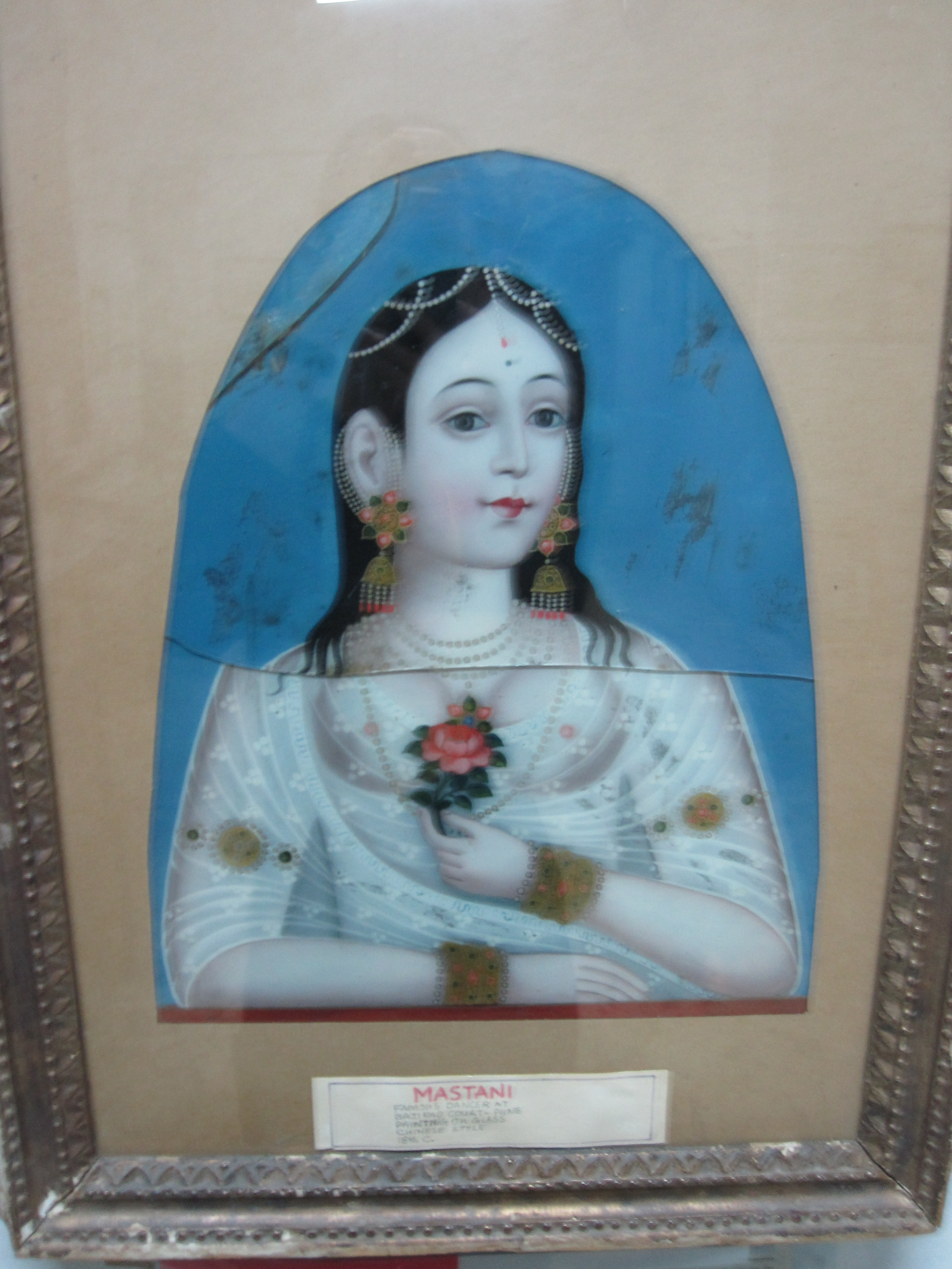 Mastani. Painting on glass (Chinese style), 18th century. In the Aina Mahal, Bhuj.